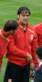 Vladimir Stojković